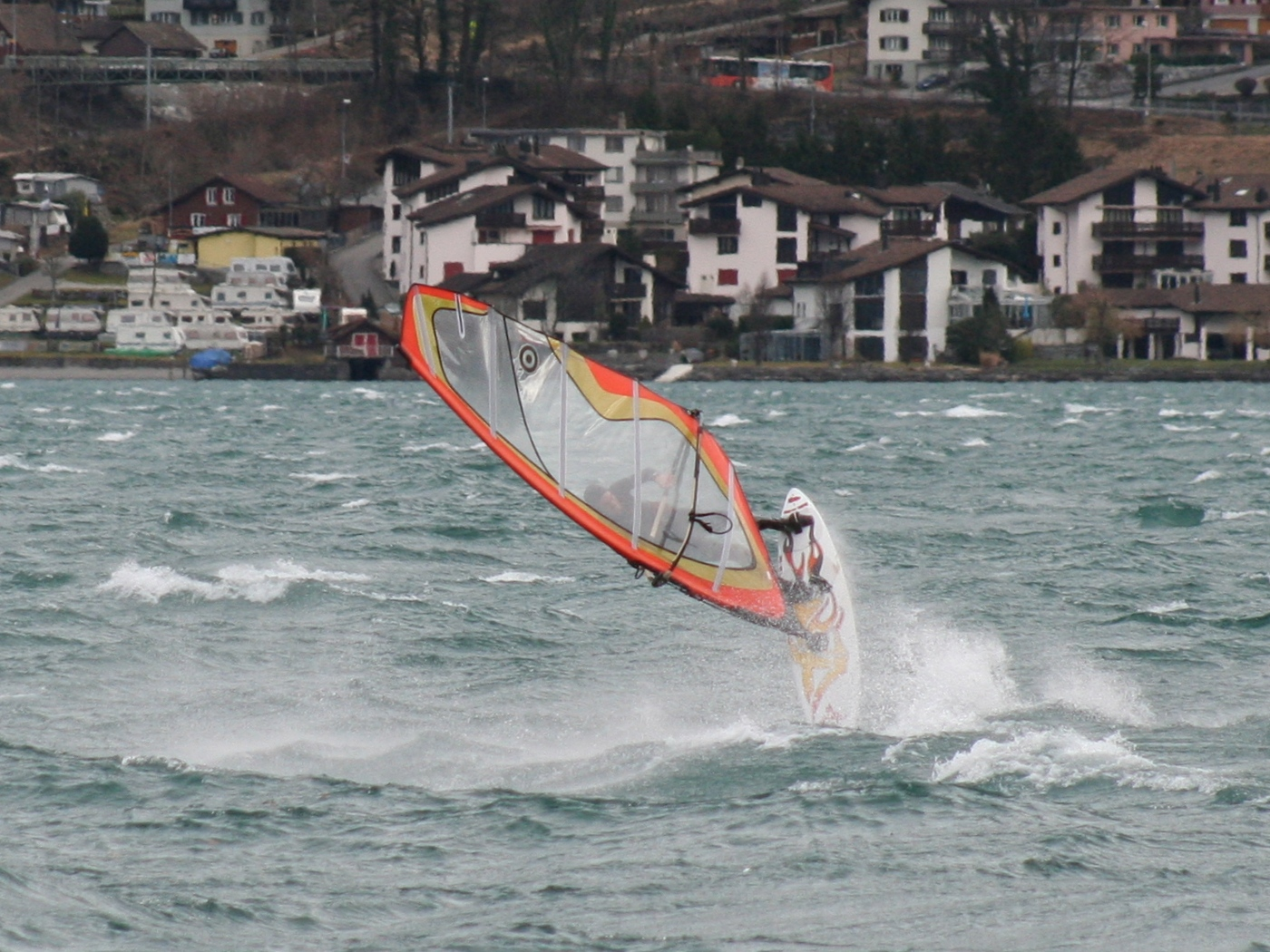 Windsurfer performing a forward loop on flat water. (January 2006)